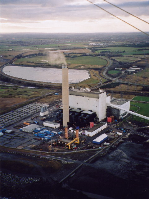 Alcan Lynemouth Power station